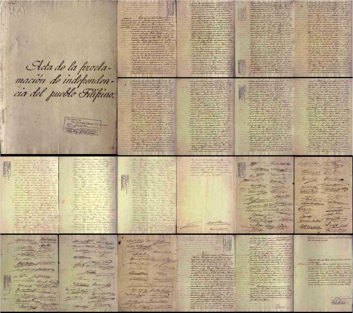 Philippine Declaration of Independence, June 12, 1898 Filipino: Deklarasyon ng Kalayaan ng Pilipinas, ika-12 ng Hunyo 1898